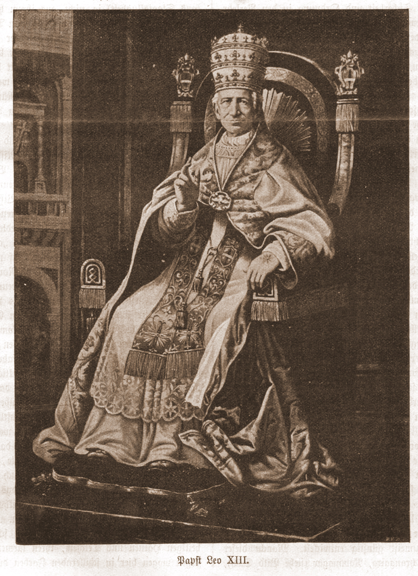 Pope Leo XIII. in brown